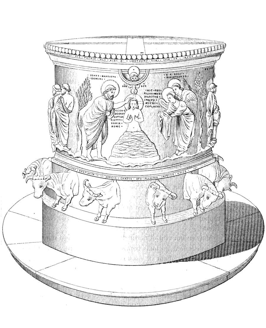 Baptismal fonts of the Church of St Bartelemy (Liège) as visible in 1846